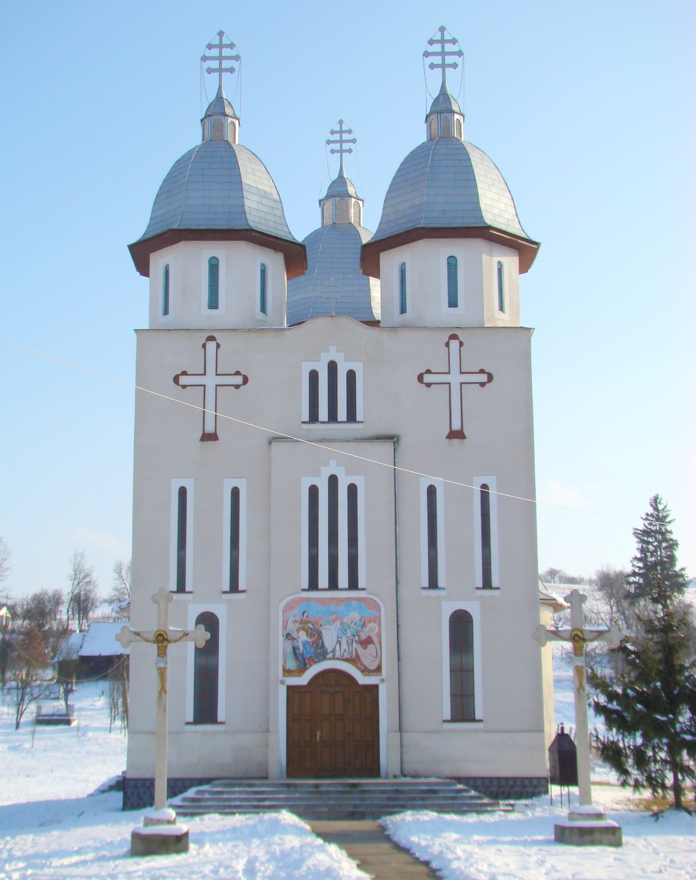 Orthodox church in Gârbău, Cluj county, Romania